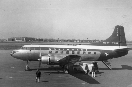 Northwest Martin 202